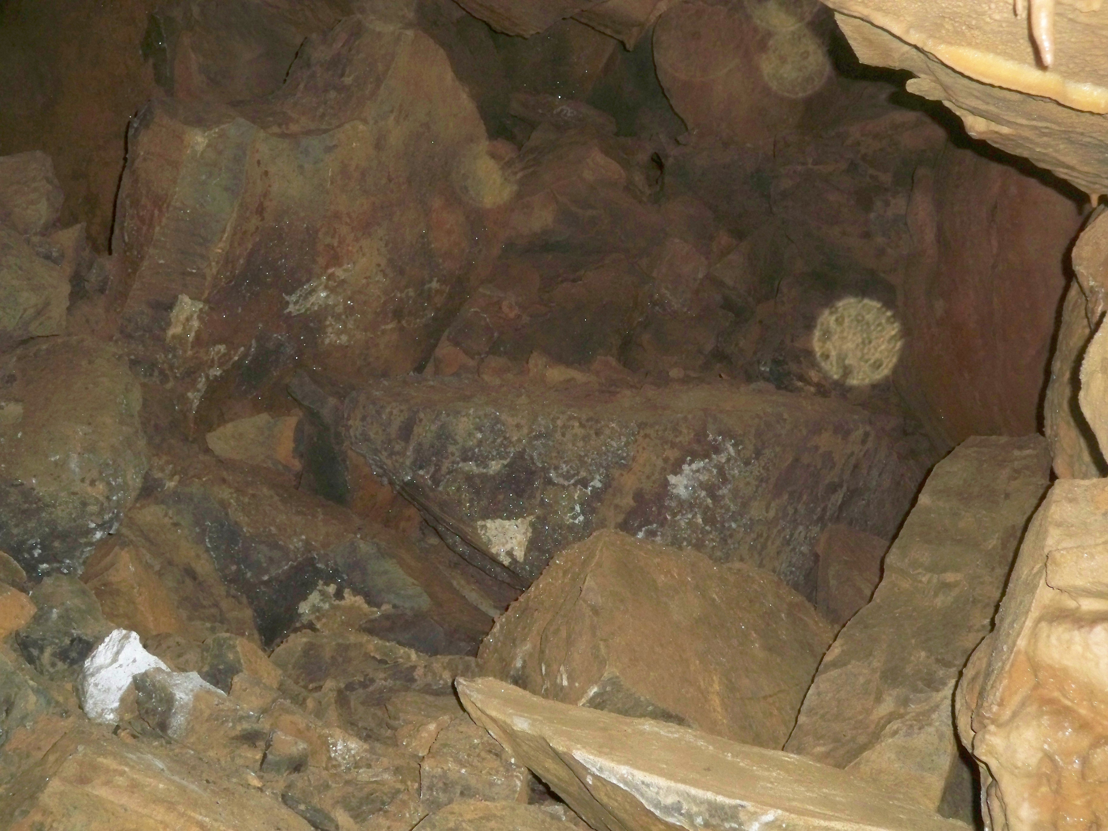 picture of pettijohns